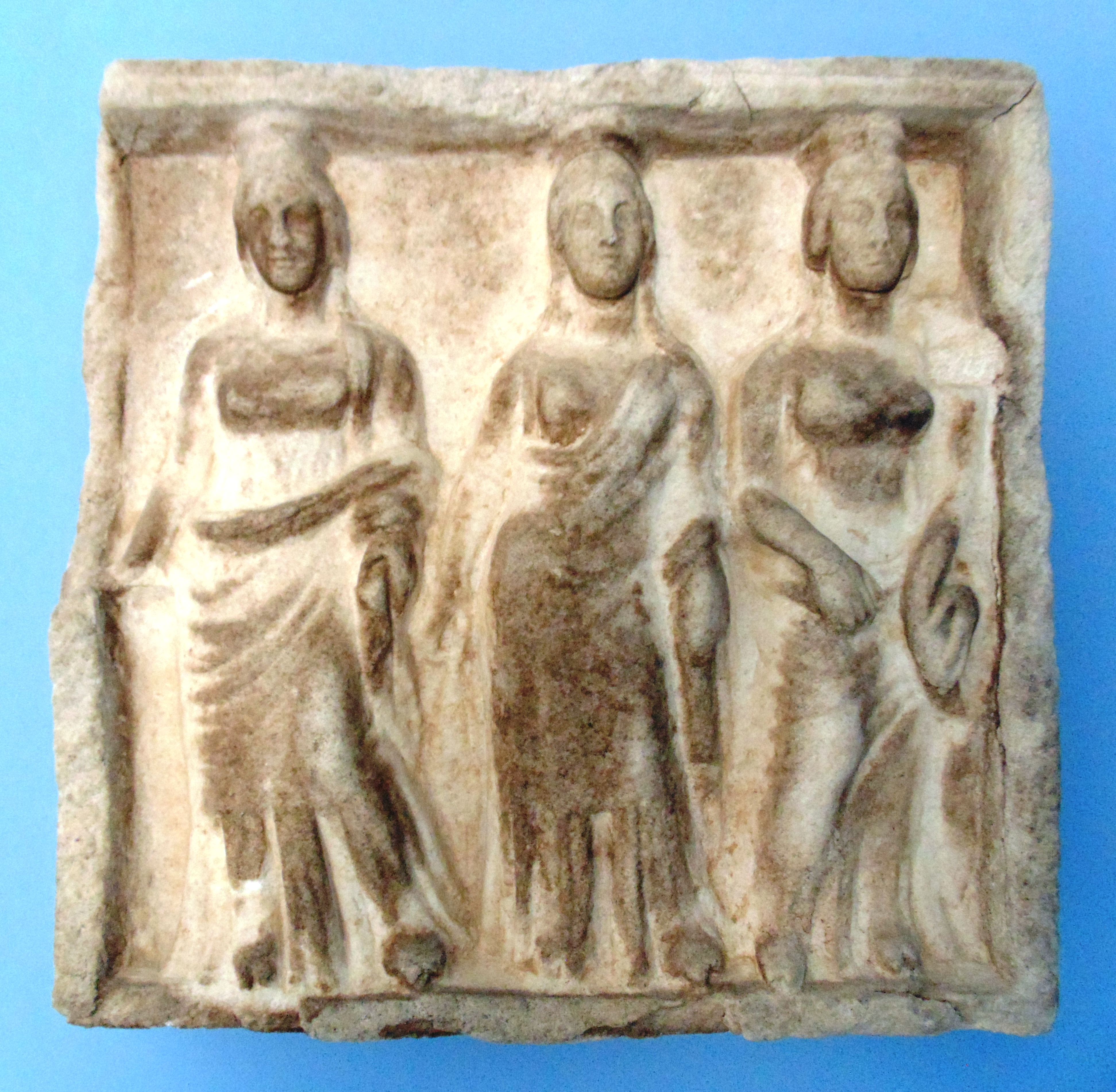 Collection of Archaeological Museum of Megara